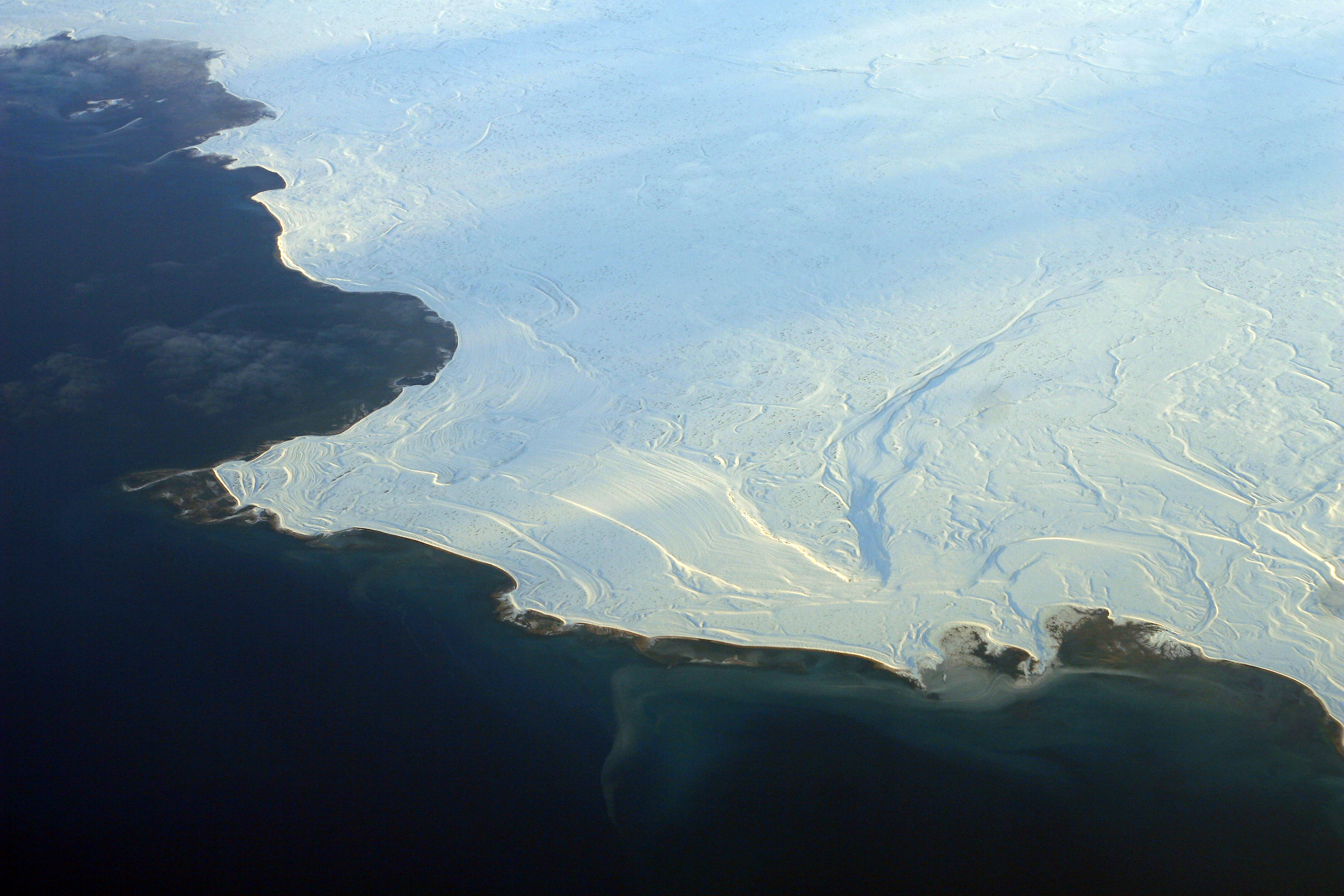 Aerial view of the edge of the ice in Nunavut.